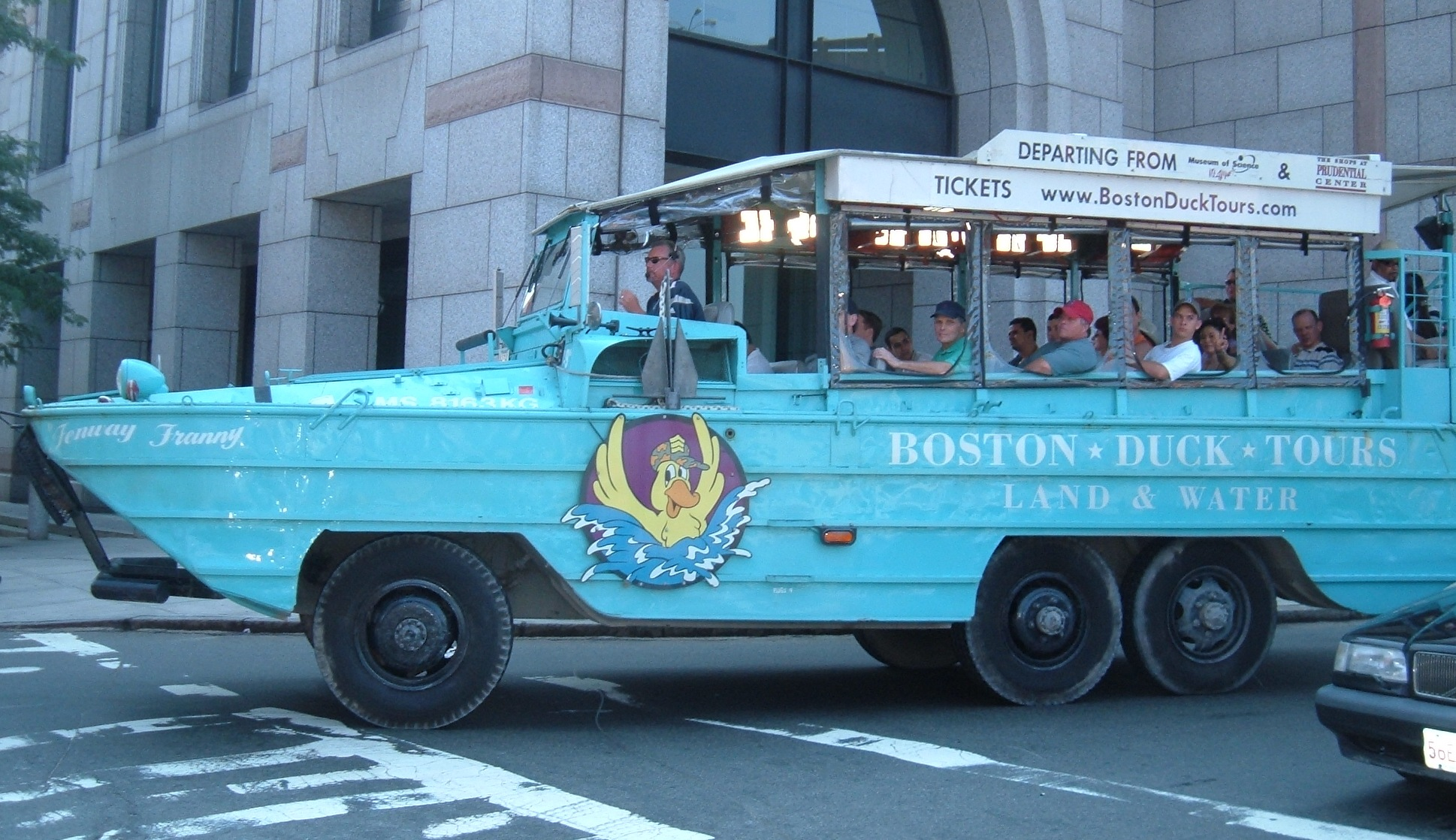 DUKW near Hynes Convention Center in Boston.